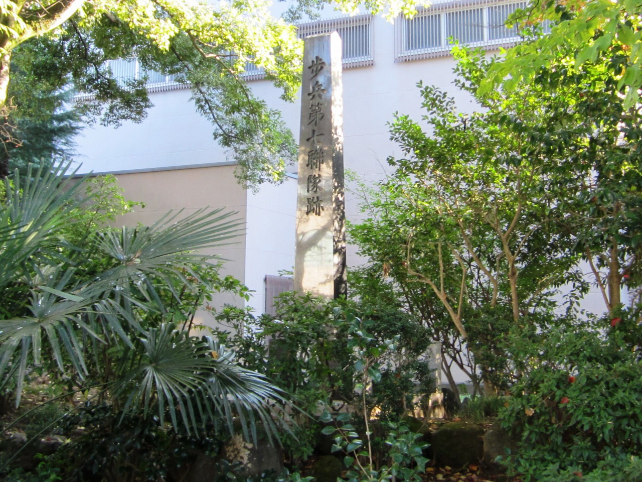 The Monument of Imperial Japanese Army 7th Infantry Regiment located in the Kanazawa Castle Park.